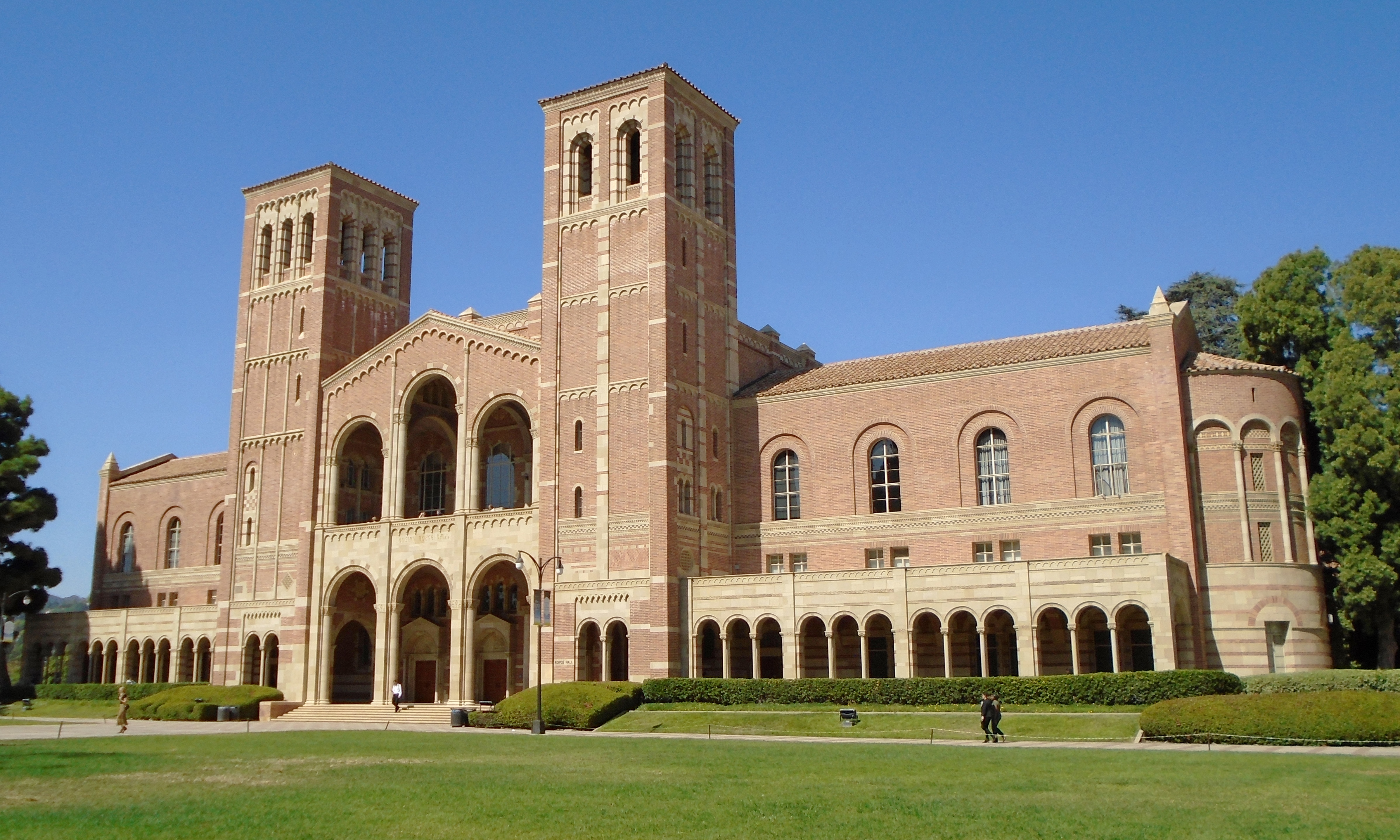 Royce Hall on Dickson Court on the Westwood campus of the University of California, Los Angeles (UCLA), is one of the campus's four original buildings – along with the College Library (now Powell Library), the Chemistry Building (now Haines Hall} and the Physics-Biology Building (later the Humanities Building and now Kaplan Hall) – all of which were designed by the Los Angeles firm of Allison & Allison in the Italian Romanesque Revival style. Completed in 1929, it was named after Josiah Royce, a California-born philosopher who received his bachelor's degree from UC Berkeley in 1875. The building's exterior is modeled after Milan's Basilica of Sant'Ambrogio.